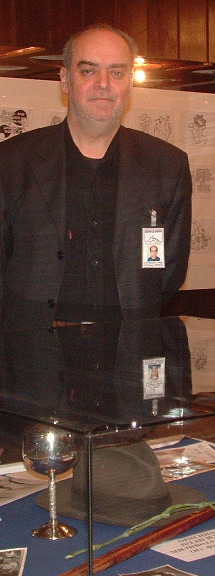 Dragi Ivić, founder and chief organizer of Milivojev štap i šešir.